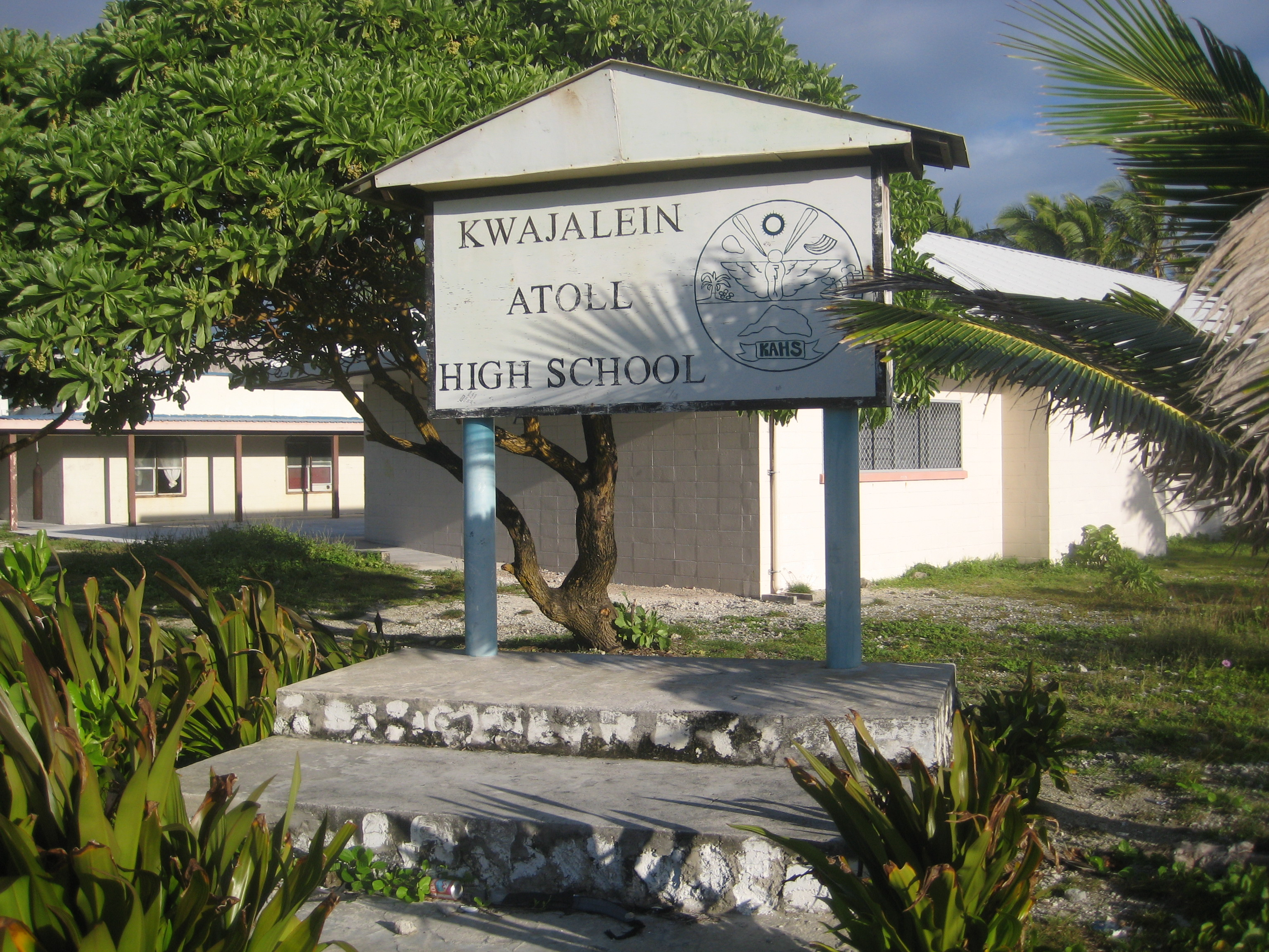 The entrance to Kwajalein Atoll High School, Kwajalein Atoll's sole public Marshallese high school, can be accessed from the island's main road.